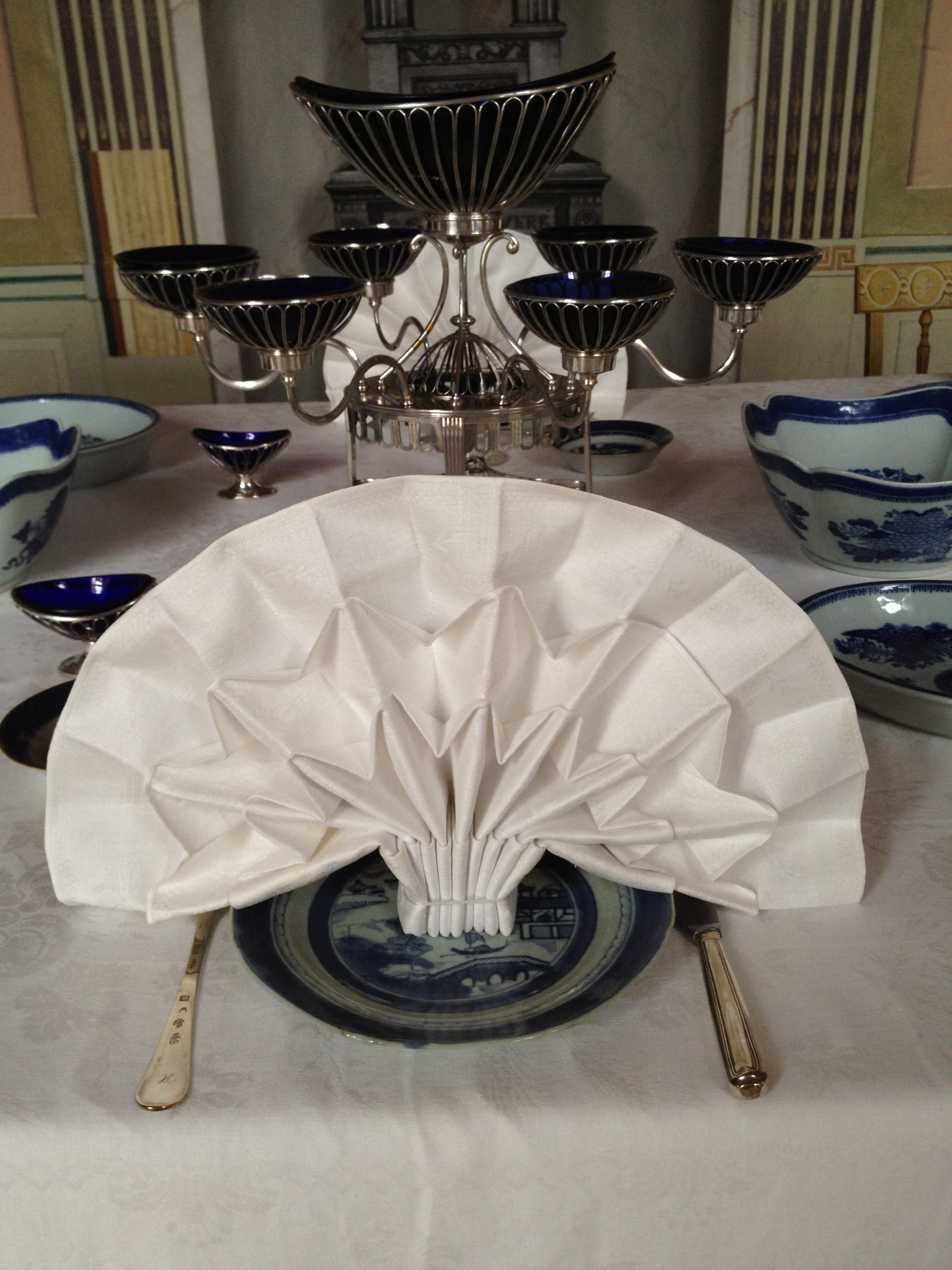 Details from the main building - Lille Brede - at Brede Værk.